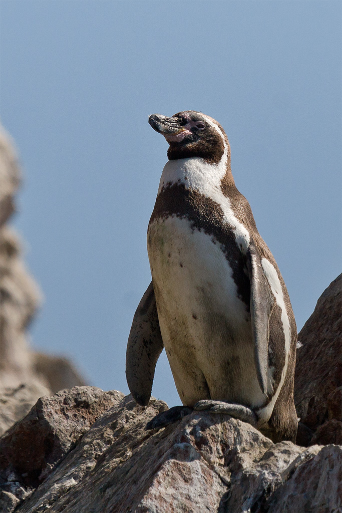 The Humboldt Penguin photographed in Islas Ballestas, Peru.